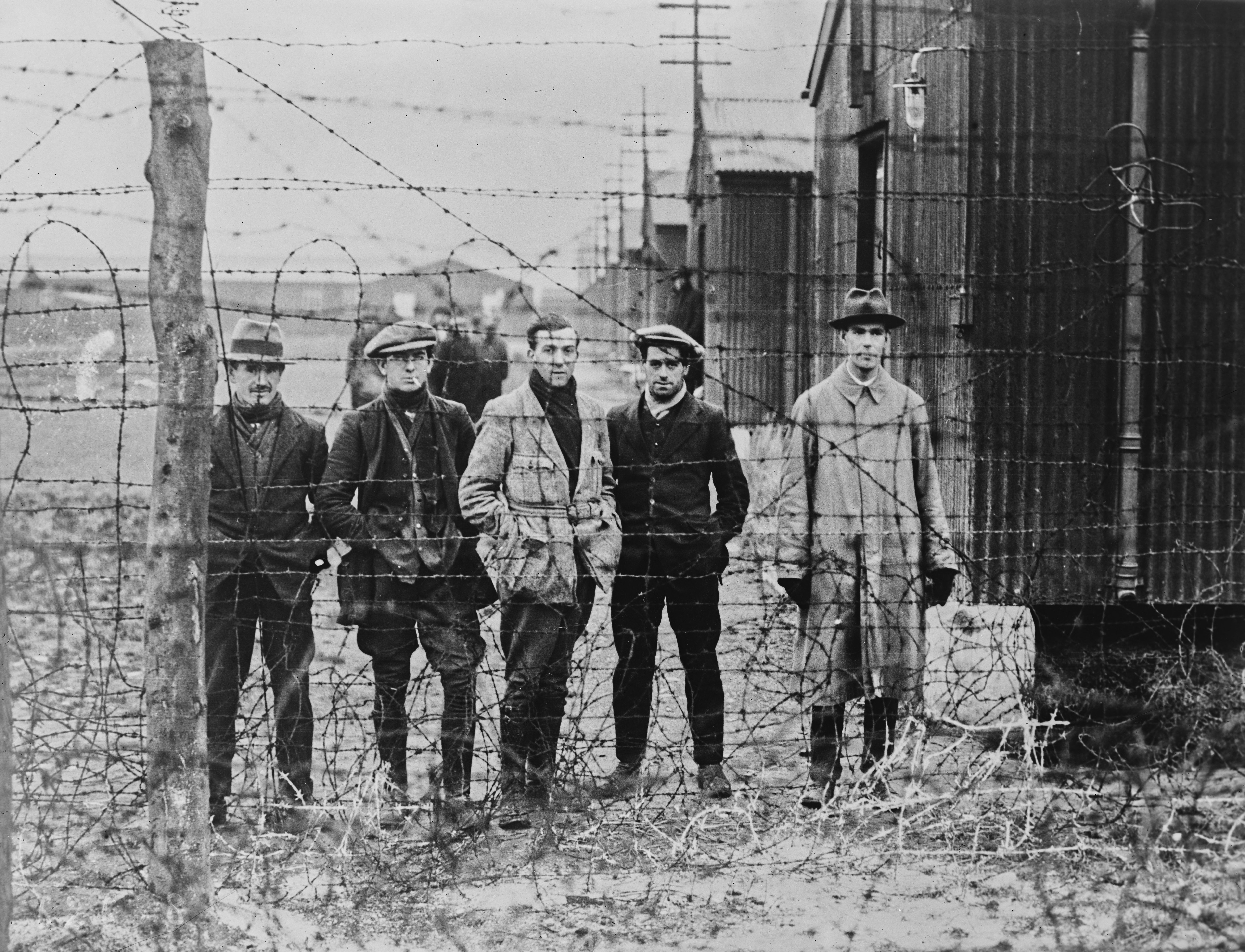 "Sinn Féiners" imprisoned or interred during the Irish War of Independence